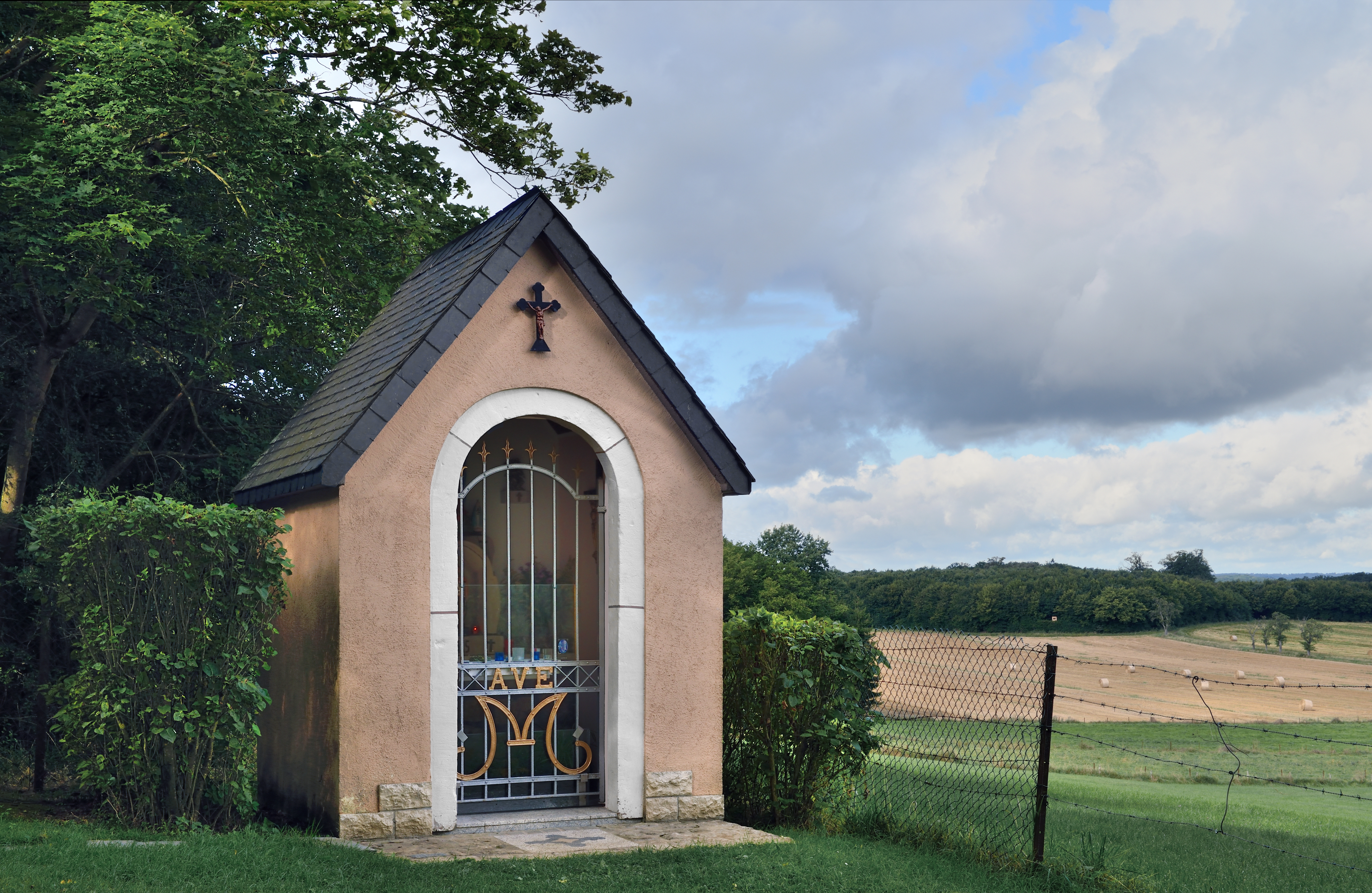 Saint Donatus chapel at Roeser, Luxembourg.